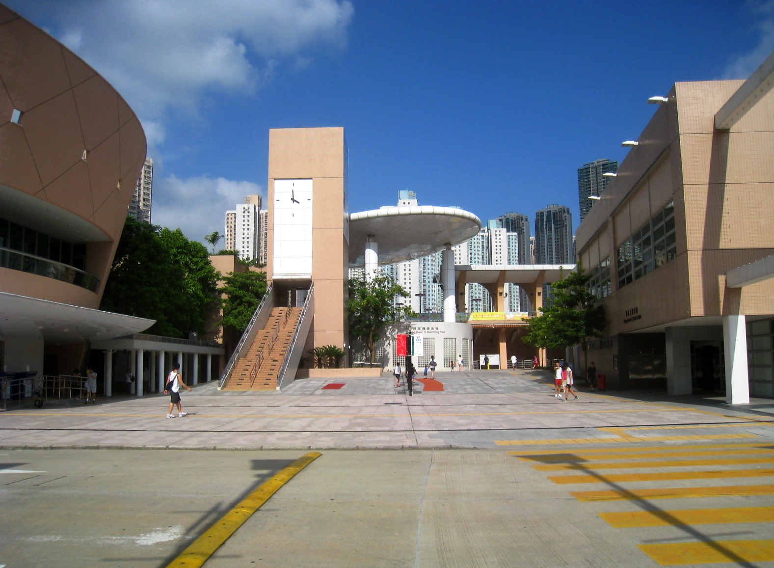 Tseung Kwan O Recreational Facilities